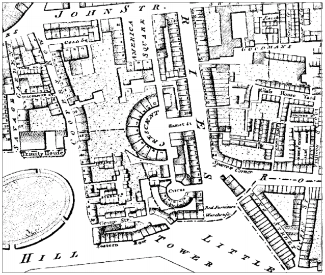 Map of area near Tower Hill featuring America Square, the Crescent and the Circus